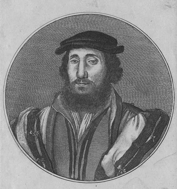 Wenceslaus Hollar, after the painting "The Ambassadors" by Hans Holbein the Younger (1647)